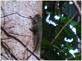 Sciurus Spadiceus